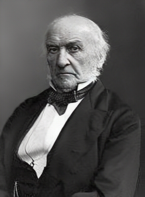 Photograph of William Gladstone from English Wikipedia.